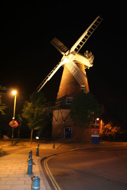 The windmill at Rayleigh, Essex floodlit at night.